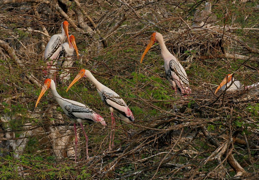 Painted Stork Mycteria leucocephala at Garapadu, Andhra Pradesh, India.